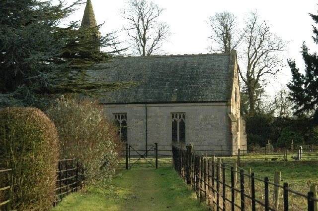 Chapel of St John the Evangelist, Buttercrambe